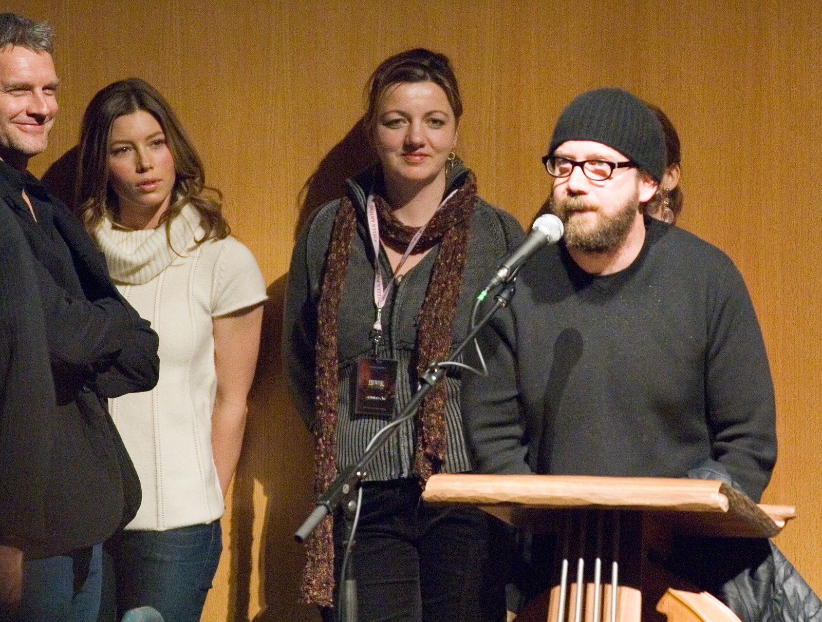 Paul Giamatti fields a question after the World Premiere of "The Illusionist" at Sundance. At the far left is director Neil Burger, and next to him is Jessica Biel.